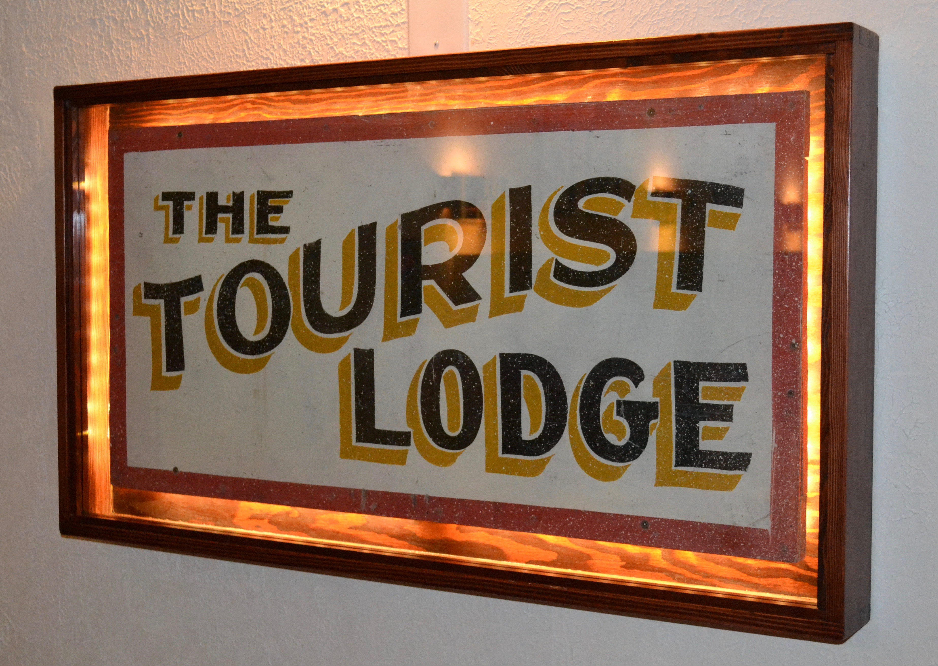 The original hand painted sign of the Tourist Lodge used from 1946-1949. It is currently on display in the lobby of the Beacon Lodge.